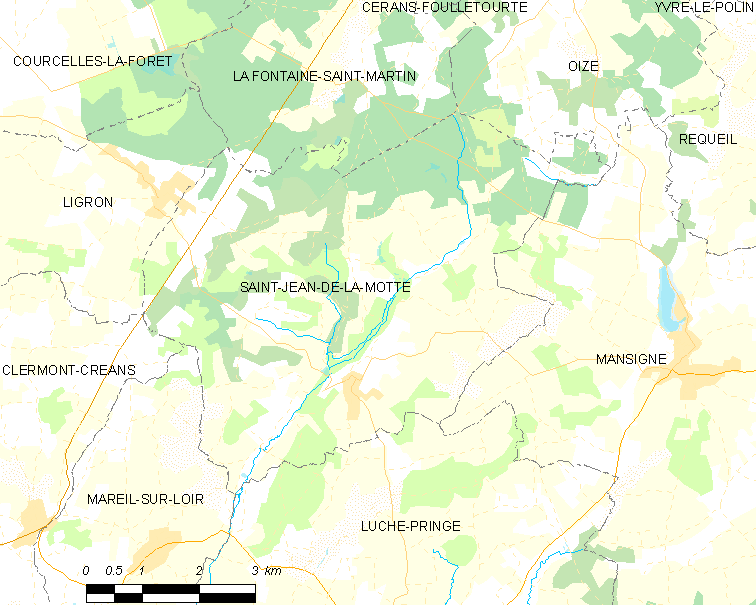 Map of French municipality